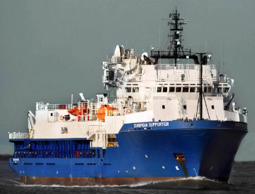 European Supporter arrives in port